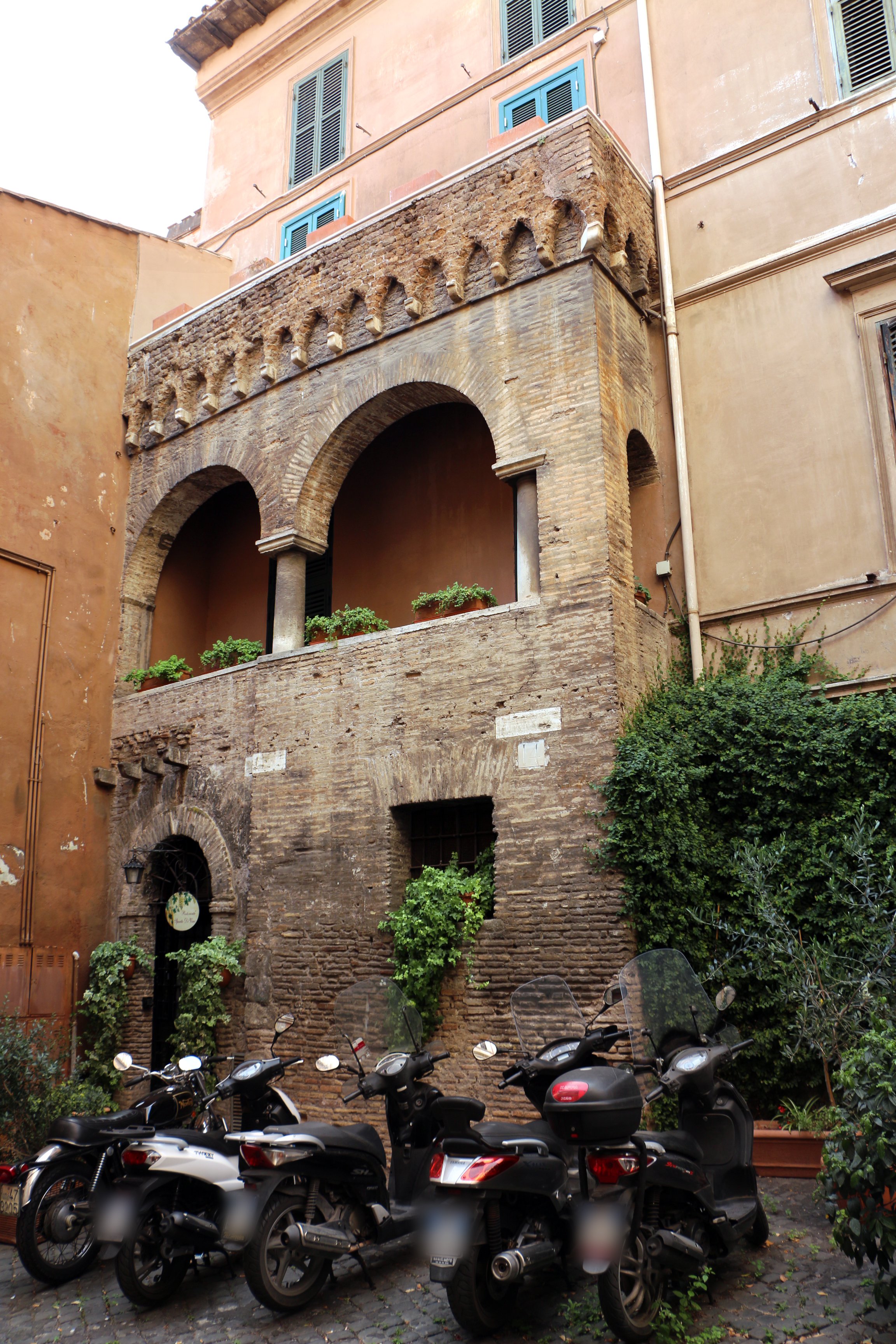 Rome, miscellany